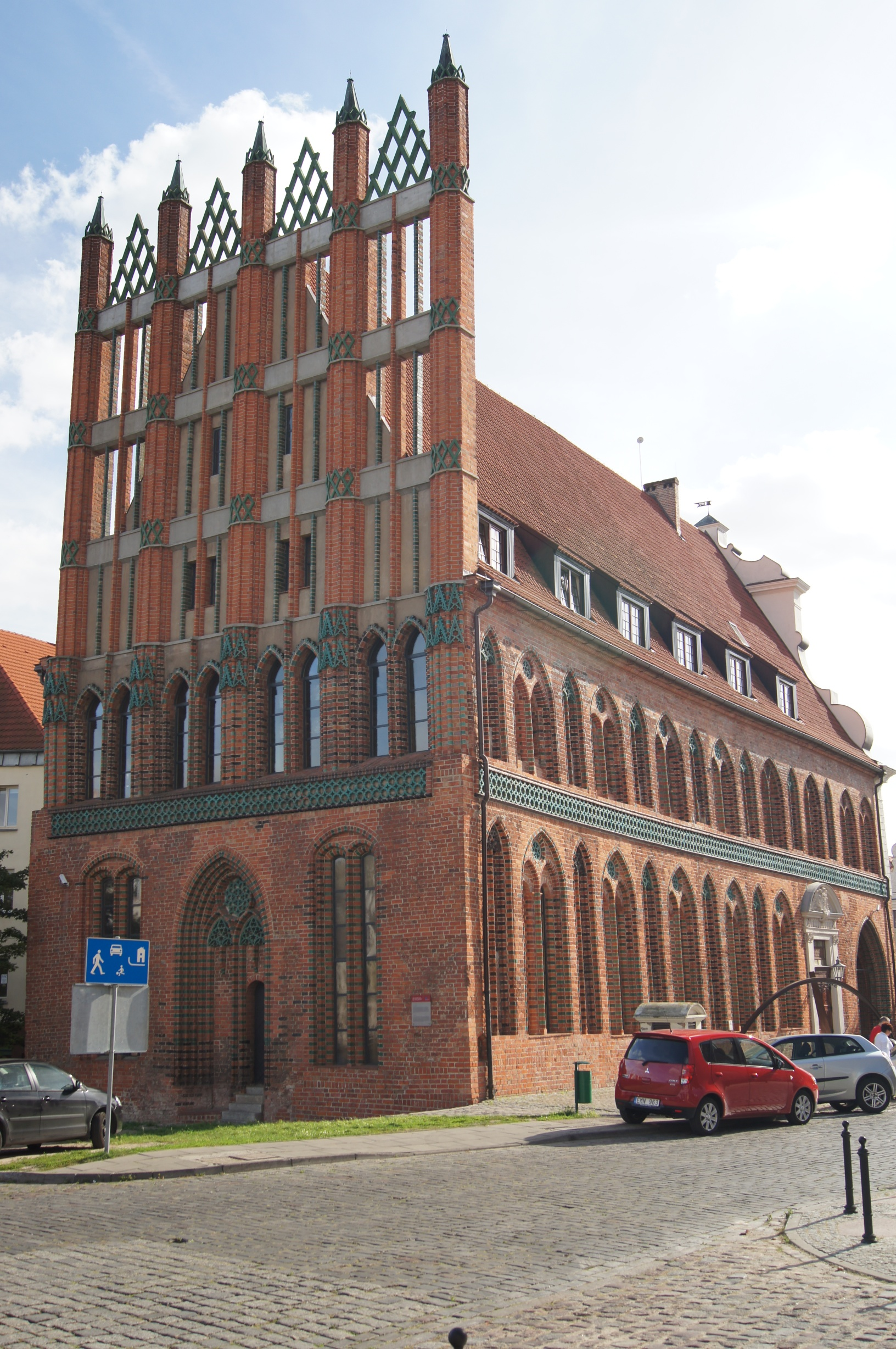 Szczecin History Museum and Old Town hall